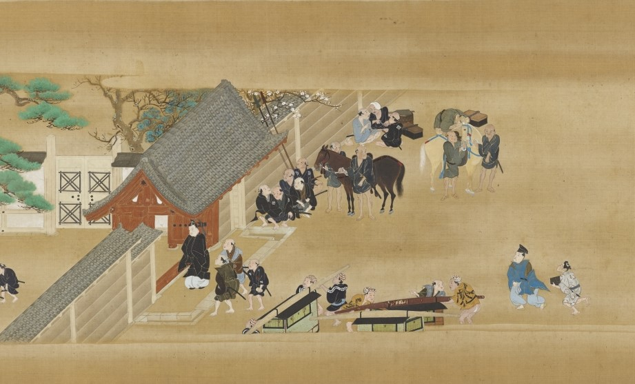 Scroll by Sumiyoshi Gukei 洛中洛外図巻